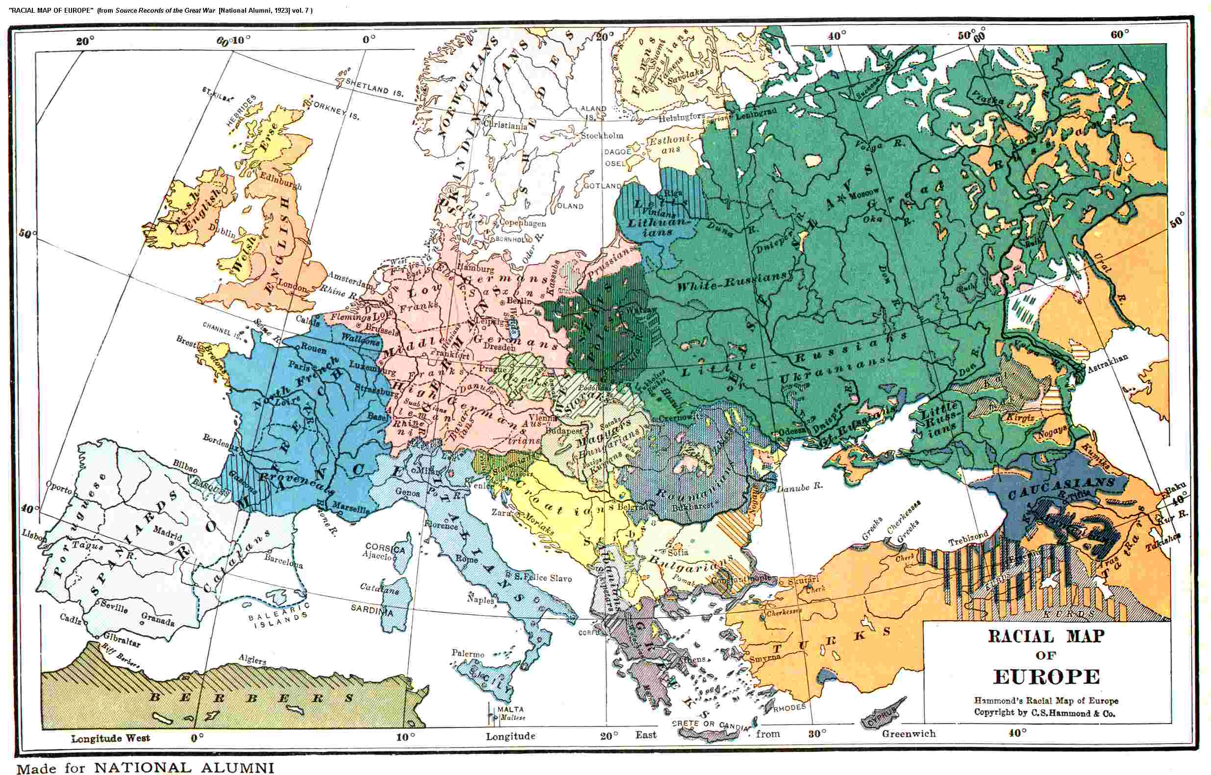 Ethnic map of Europe. When the creators of this map used the term "race" they meant "speech or culture group". "Ethnic Group" would be the modern term. In modern usage, "race" tends to connote a biological classification.